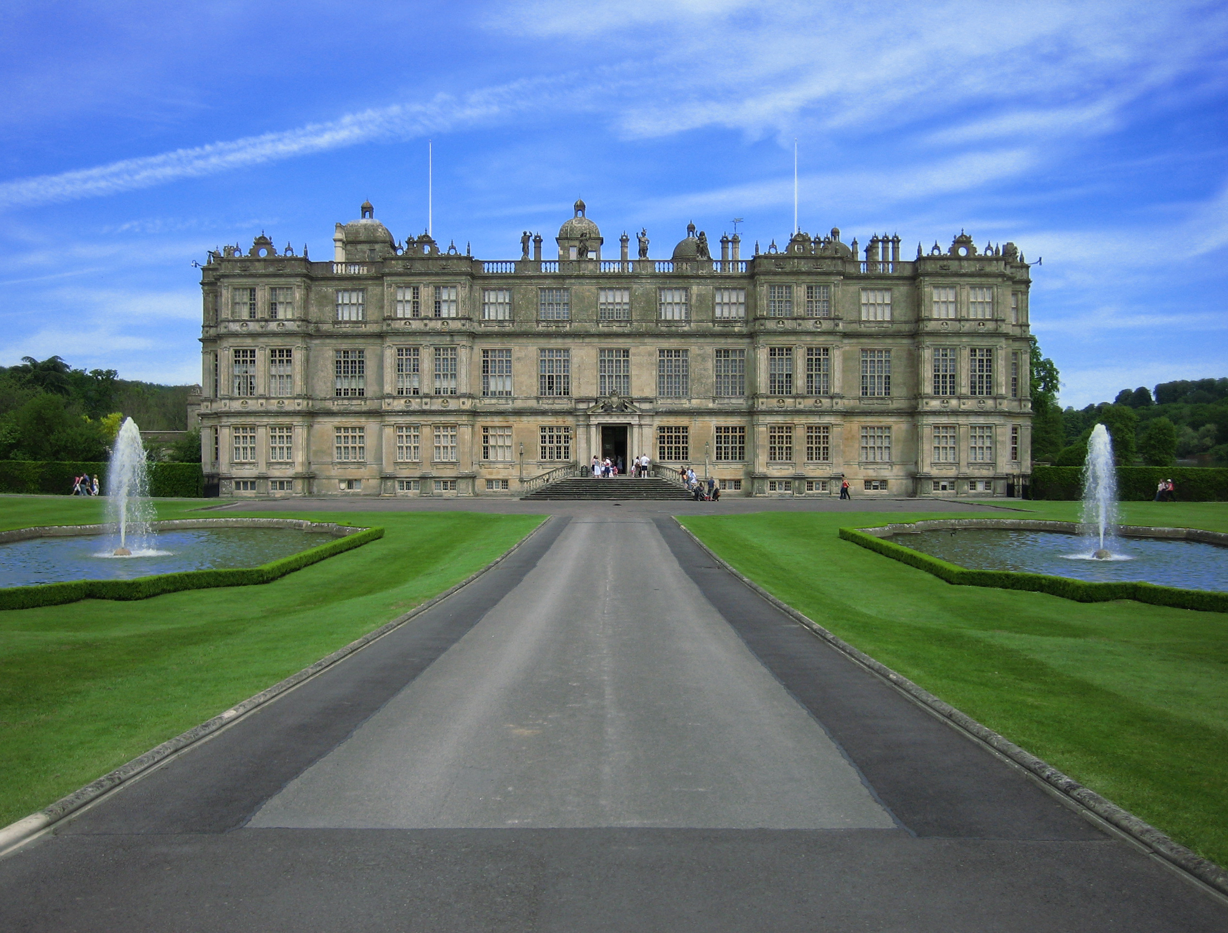 Longleat house and gardens, English country house completed by 1580, landscaped by Capability Brown.